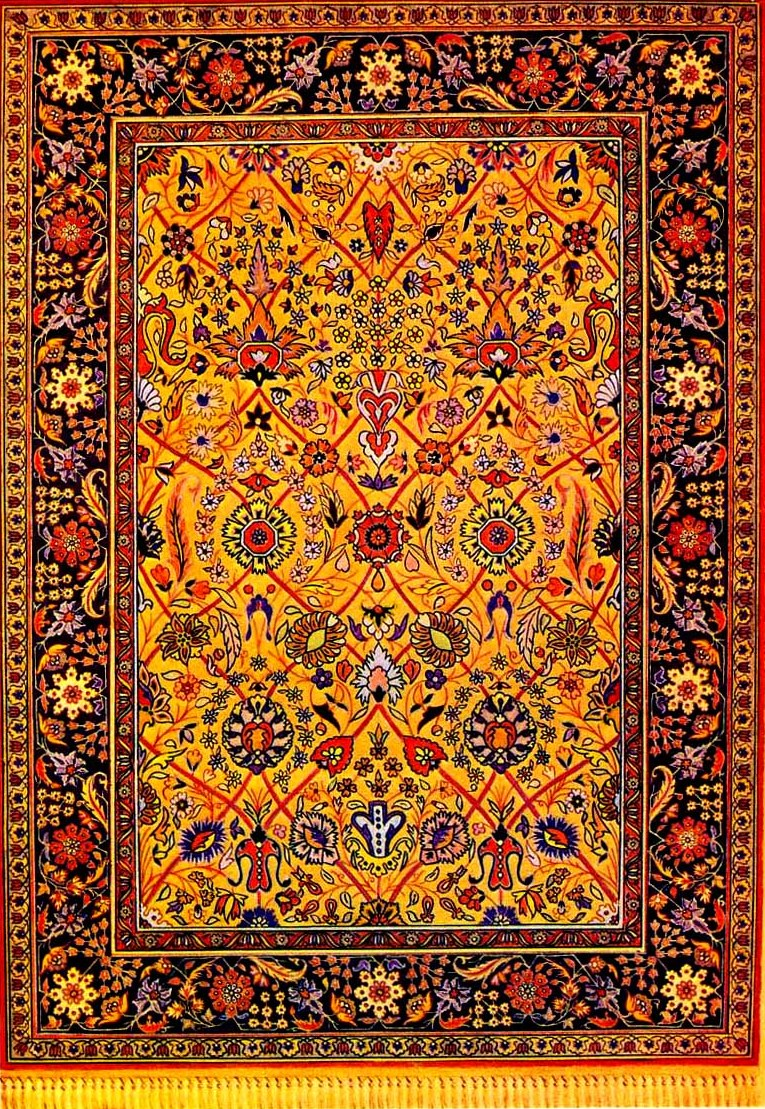 Shah Abbasi rug, Ardebil school, XVIII c.